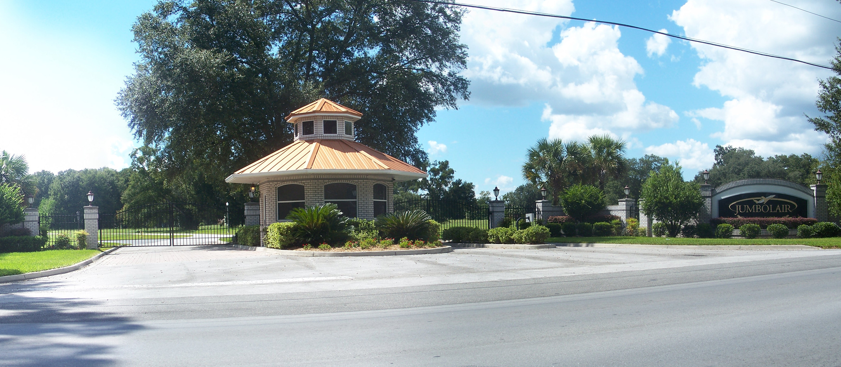 Anthony, Florida: Entrance to Jumbolair, a gated aviation community in the area. One of the more famous residents is John Travolta. Panorama view.